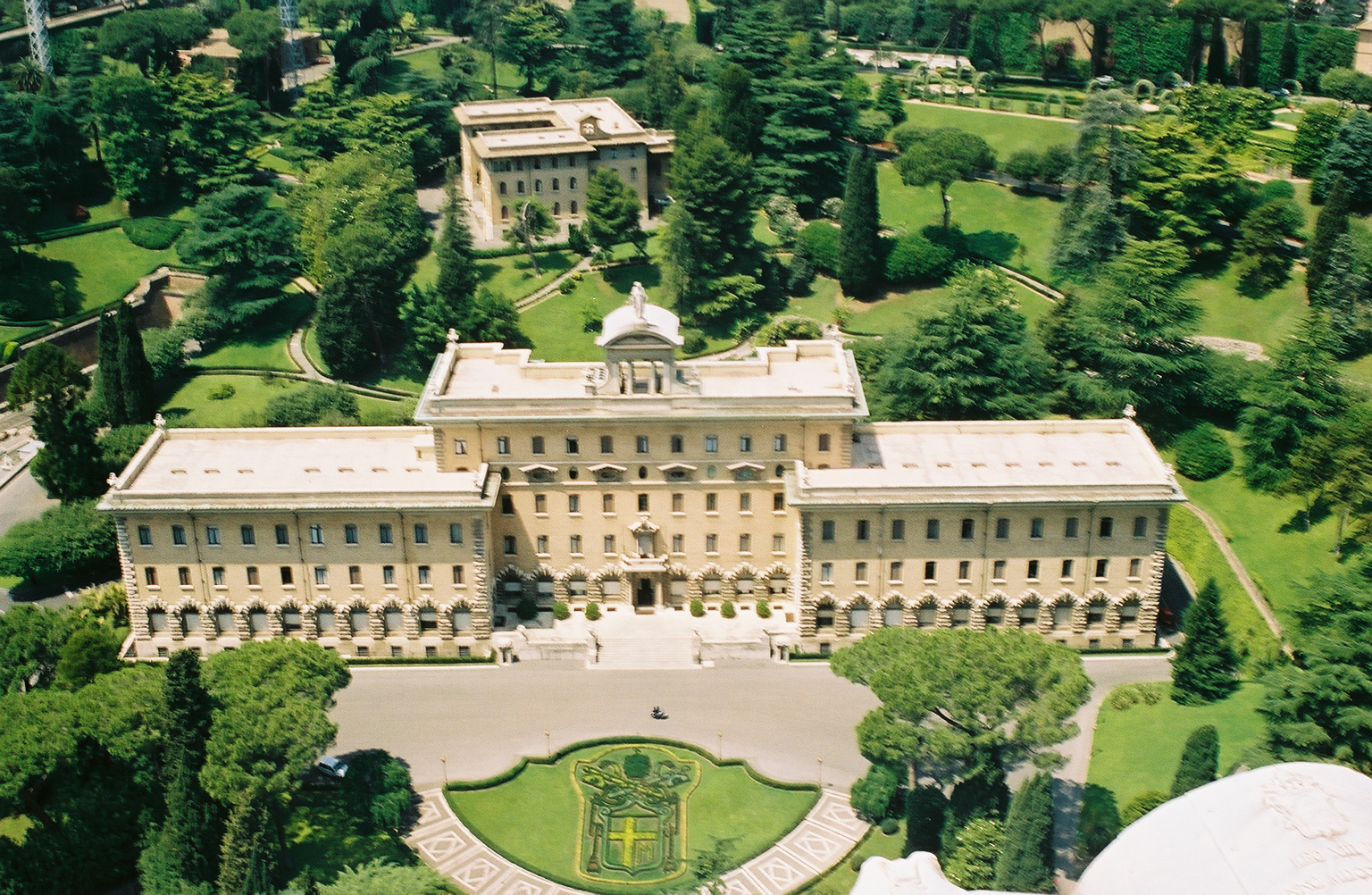 Palace of the Governorate of Vatican City State.